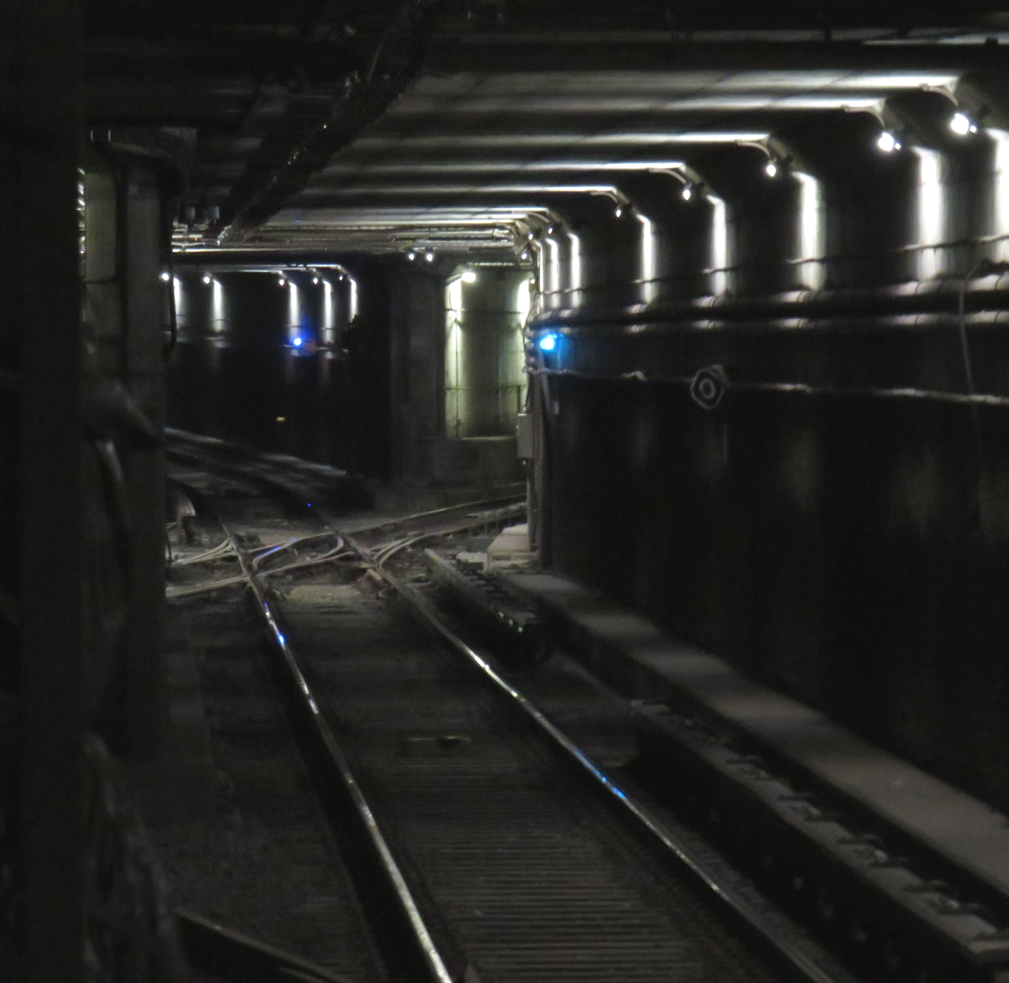 Wilson Yard connection tunnel south of Sheppard West station on the Toronto subway